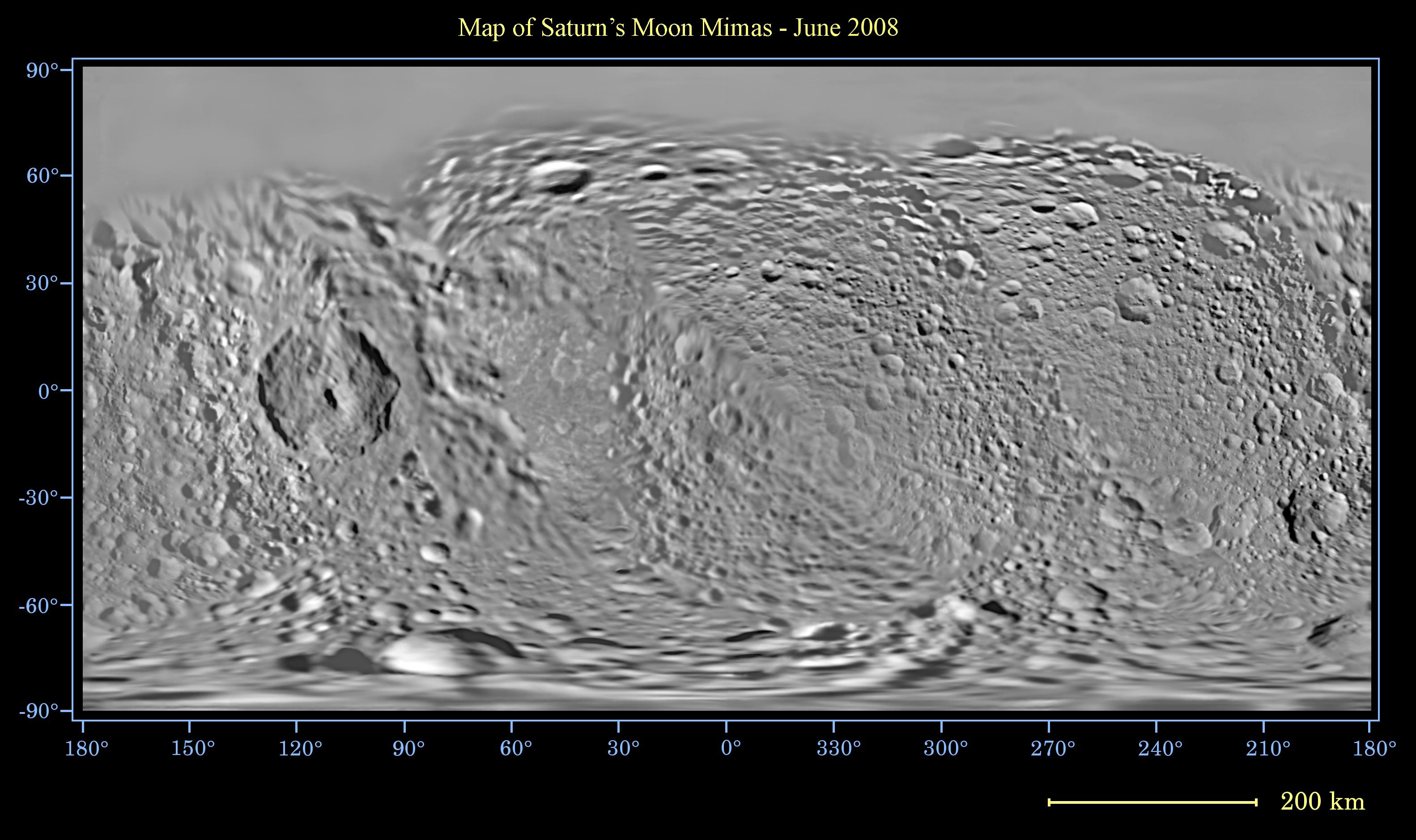 This global map of Saturn's moon Mimas was created using images taken during Cassini spacecraft flybys, with Voyager images filling in the gaps in Cassini's coverage. The moon's large, distinguishing crater, Herschel, is seen on the map at left. The map is an equidistant (simple cylindrical) projection and has a scale of 432 meters (1,417 feet) per pixel at the equator. The mean radius of Mimas used for projection of this map is 198.2 kilometers (123.2 miles). The resolution of the map is 8 pixels per degree. This mosaic map is an update to the version released in January 2008 (see PIA08344). The Cassini-Huygens mission is a cooperative project of NASA, the European Space Agency and the Italian Space Agency. The Jet Propulsion Laboratory, a division of the California Institute of Technology in Pasadena, manages the mission for NASA's Science Mission Directorate, Washington, D.C. The Cassini orbiter and its two onboard cameras were designed, developed and assembled at JPL. The imaging operations center is based at the Space Science Institute in Boulder, Colo. For more information about the Cassini-Huygens mission visit The Cassini imaging team homepage is at